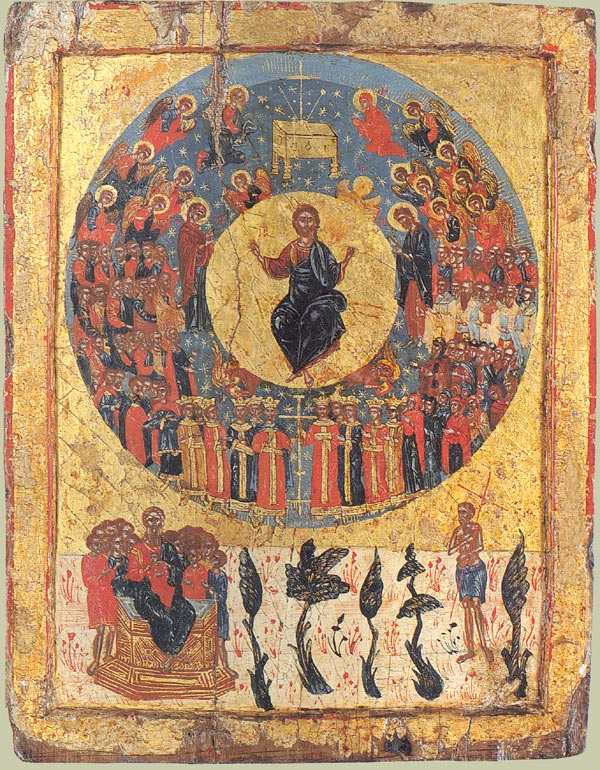 Icon of Second Coming (also used for All Saints Sunday). Christ is enthroned in the center surrounded by the angels and saints, Paradise is at the bottom, with the Bosom of Abraham (left) and the Good Thief (right) holding his cross. Greece. Around 1700 Wood, gesso, tempera. Size - 34.5 x 27 cm Private Collection. Bibliography Sotheby's: Icons, Russian Pictures and Works of Art. London, 1991, p 155. Второе пришествие. Греция. Около 1700 г. Дерево, левкас, темпера. Размер - 34,5 х 27 см. Иконография Рай Лоно Авраамово Все святые Христос в Славе Второе пришествие Происхождение Неизвестно. Местонахождение Частная коллекция. Библиография Sotheby's: Icons, Russian Pictures and Works of Art. London, thursday 28th november 1991. Страница 155